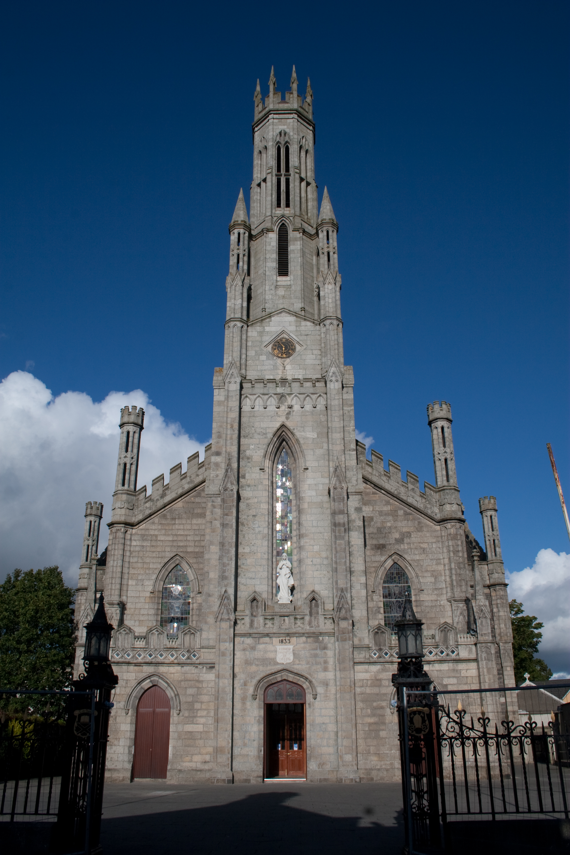 Carlow, County Carlow, Ireland Carlow Cathedral of the Assumption as seen from College Street.